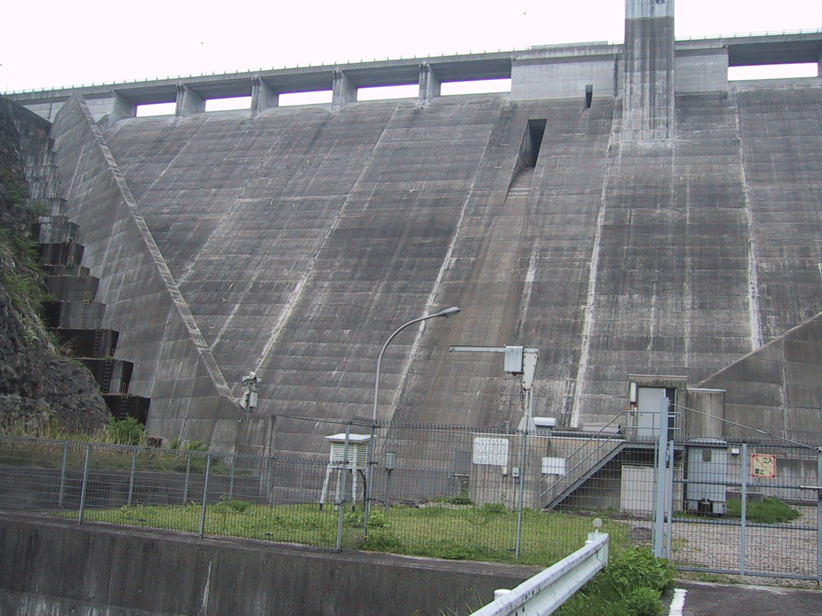 Higashiarakawa Dam.